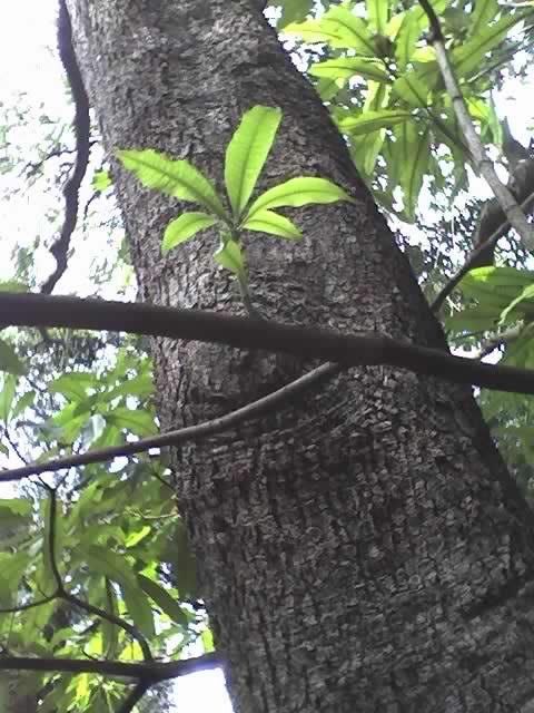 Rauvolfia caffra at Ilanda Wilds